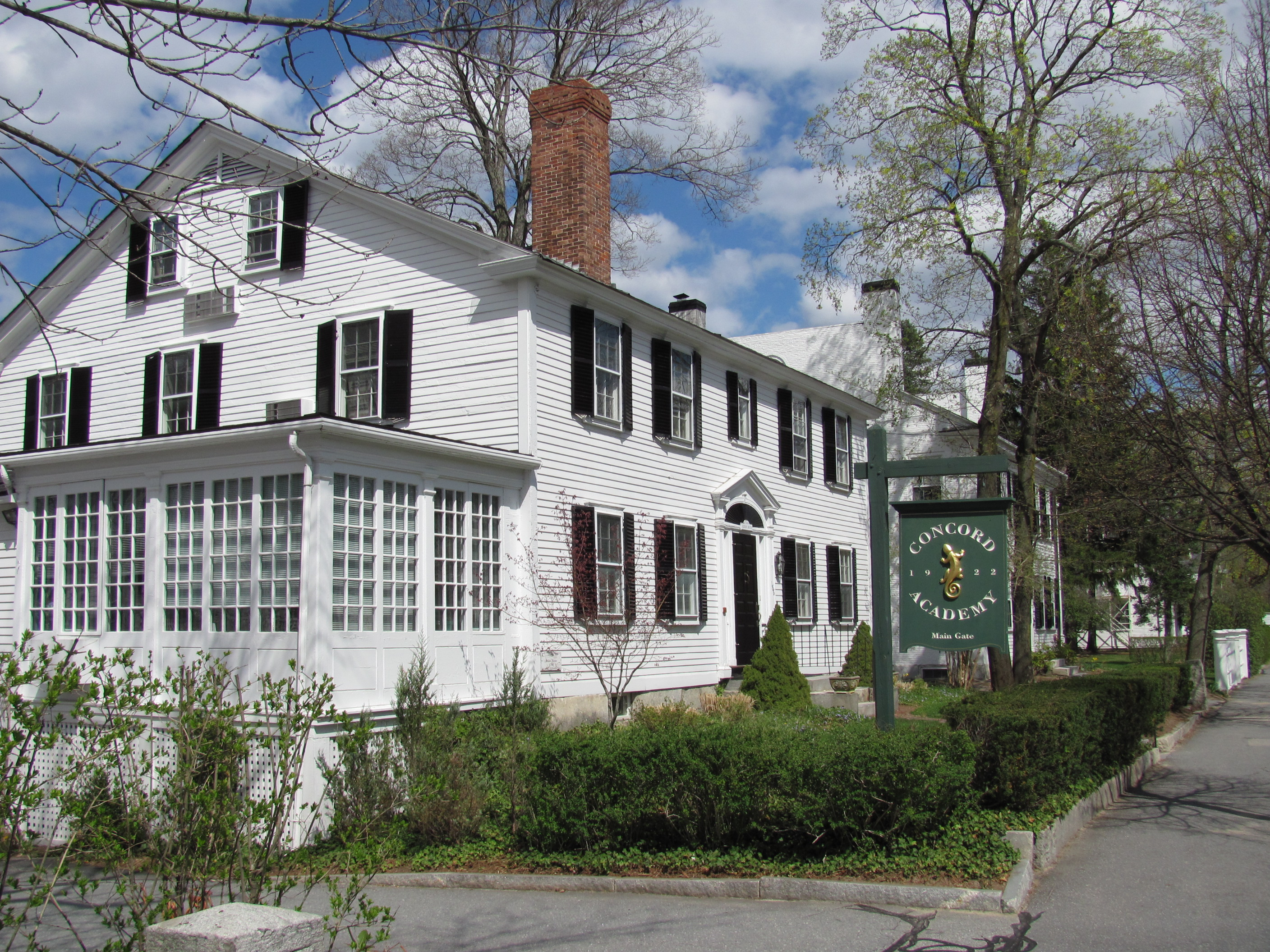 Concord Academy, Concord Massachusetts